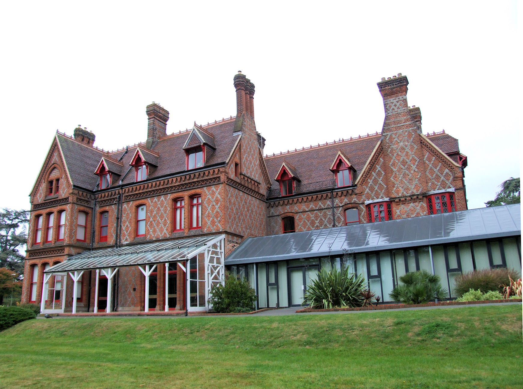 Foxhill is a house on the Whiteknights Campus of Reading University. It was originally built by the eminent Victorian architect, Alfred Waterhouse, for his own use. There is more about it here. From 1919-1943 it was the residence of Hugo Hirst (Baron Hirst of Witton), head of the General Electric Company from 1910-1943. Before that it belonged to Rufus Isaacs (1st Marquess of Reading), Lord Chief Justice of England from 1913-1921.